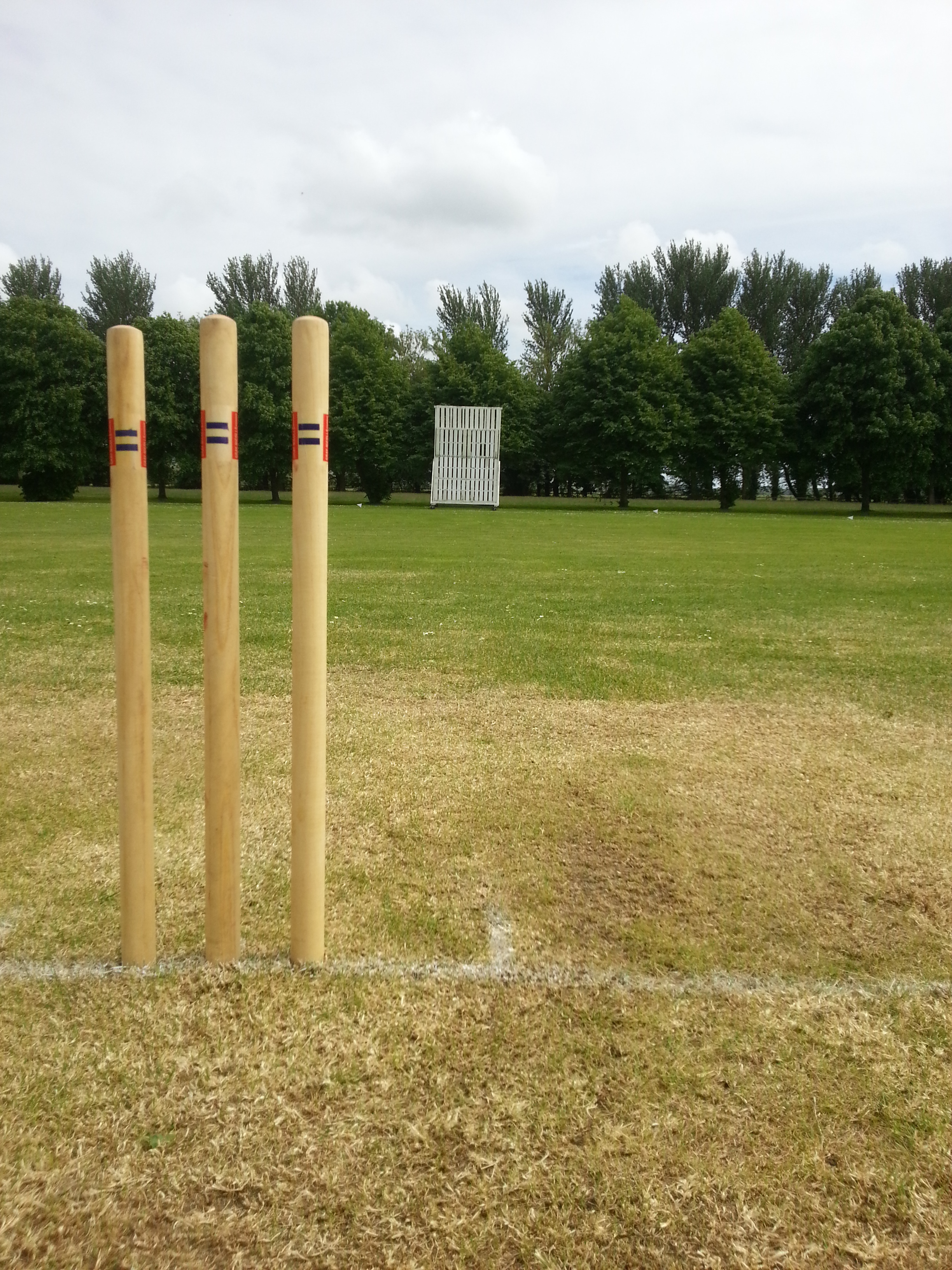 Wicket at Lewes Priory Cricket Club at the Dick Roberts Memorial Match (and President's lunch)